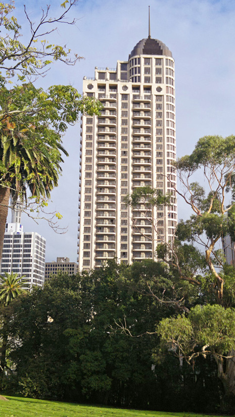 Metropolis Building in Auckland.